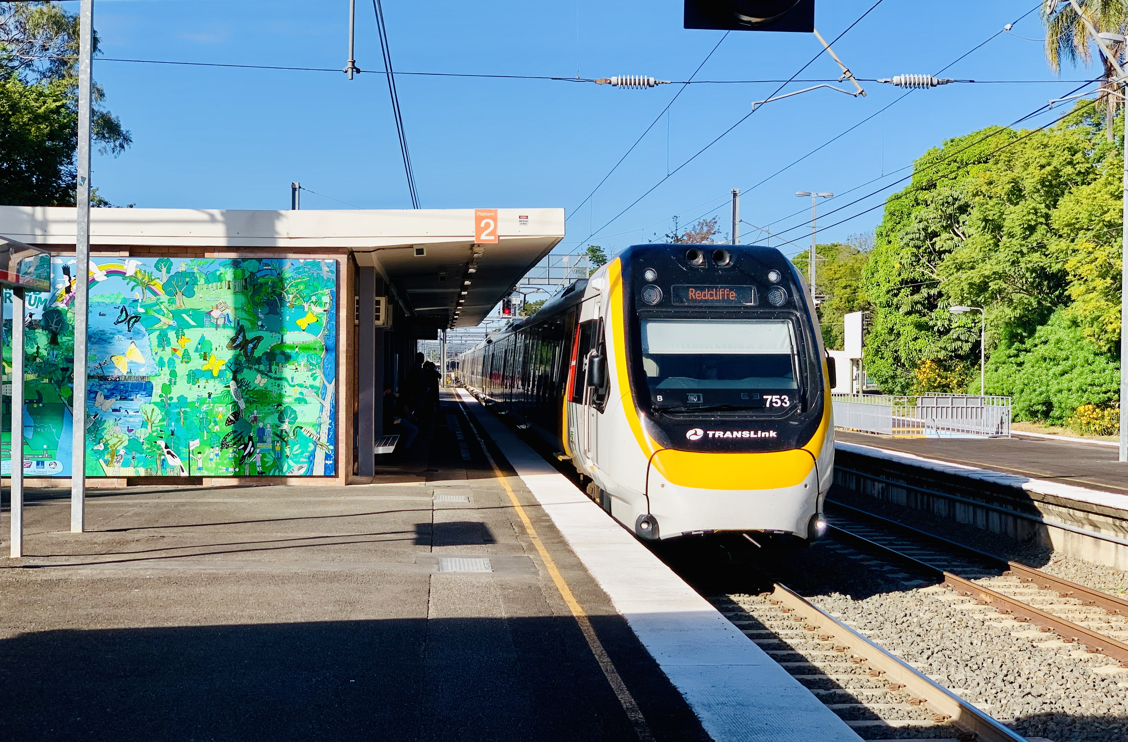 NGR753 approaching Sherwood railway station, Brisbane